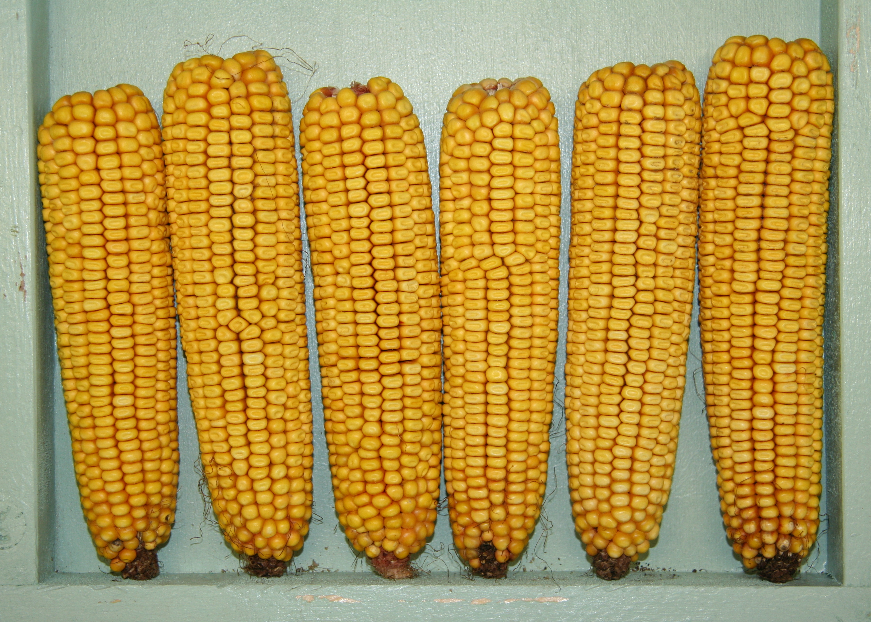 A display of six ears of field corn with dented yellow kernels (Zea mays var. indentata) which won ribbons for "best of show" at the Steele County Fair in Owatonna, Minnesota